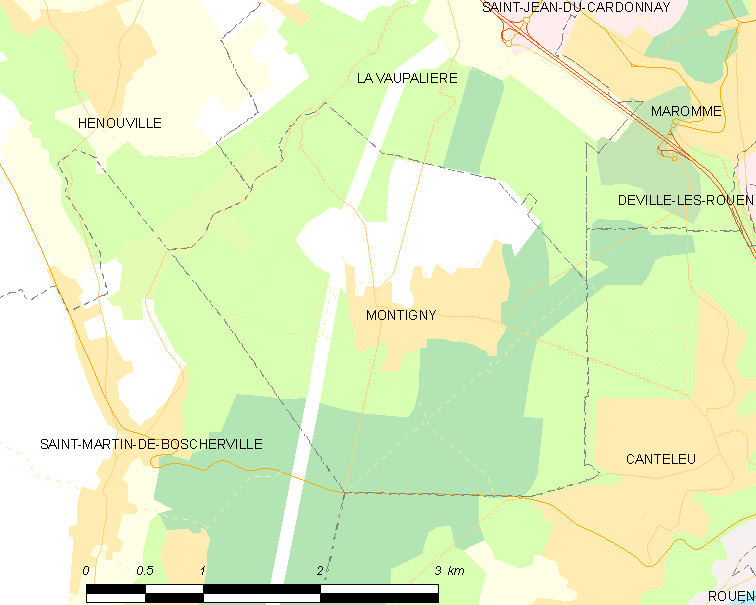 Map of French municipality Montigny